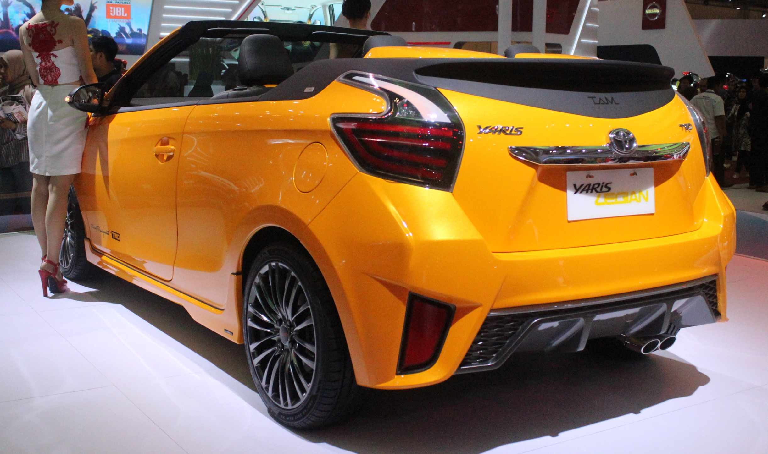 Toyota Yaris Legian Concept photographed at the 2015 Gaikindo Indonesia International Auto Show in South Tangerang, Banten, Indonesia.